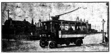 One of the original Leeds trolleybuses. The photo was published in a newspaper in Perth, WA, Australia, as one of the illustrations for an article headed "A motor bus service as a suburban feeder to the nationalised trams [in Perth]". The caption to the photo reads: "One of the Leeds trolley-buses in service. This is what Perth needs between Subiaco and North Fremantle." More than twenty years later, on 1 October 1933, Perth became the first Australian city to set up a permanent trolleybus system. By then, the Leeds trolleybus system had been closed for more than five years.